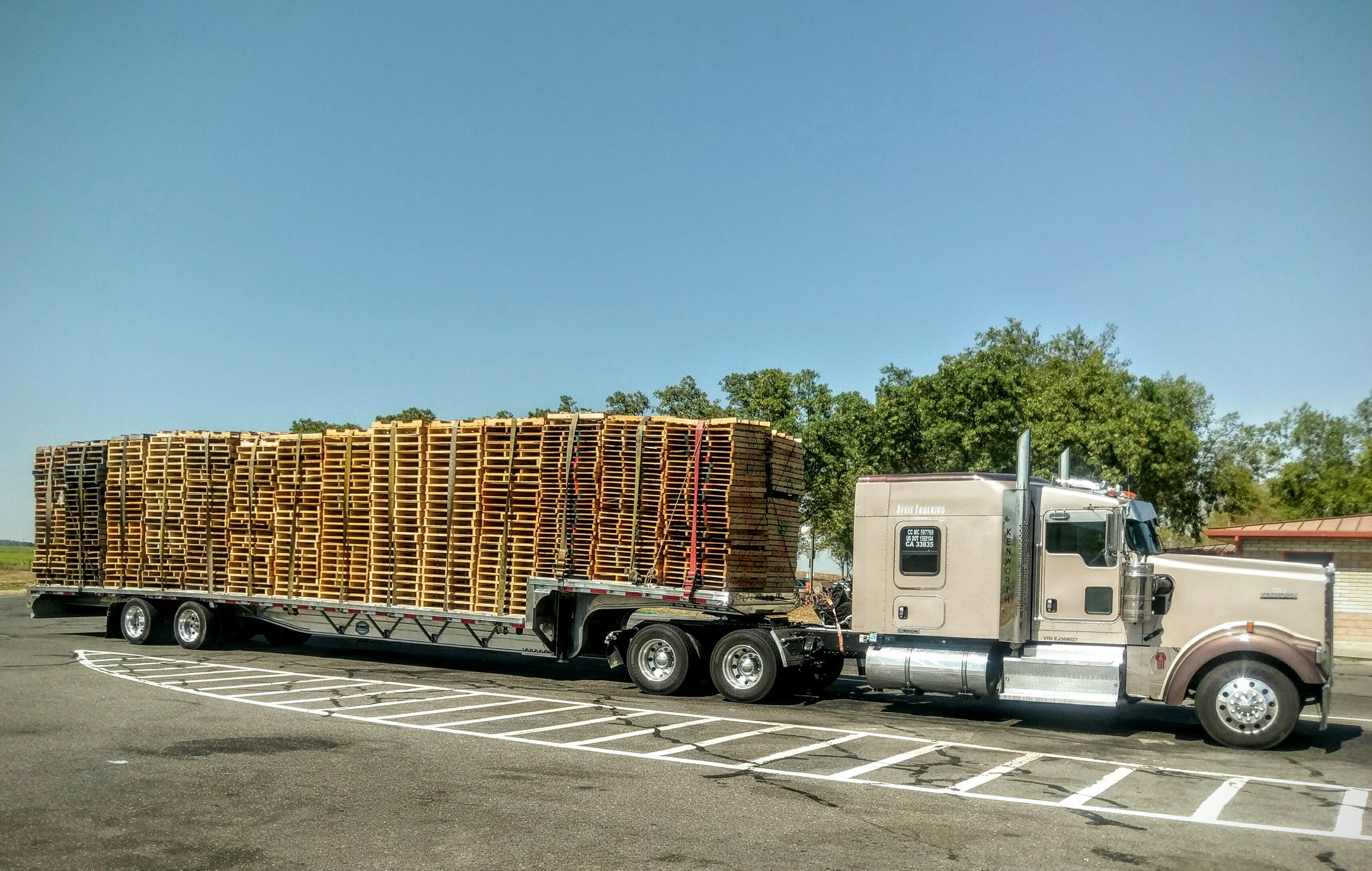 A truckload of recycled wooden shipping pallets at a rest stop on Interstate 5 in Maxwell, California. Photo by Jim Heaphy.